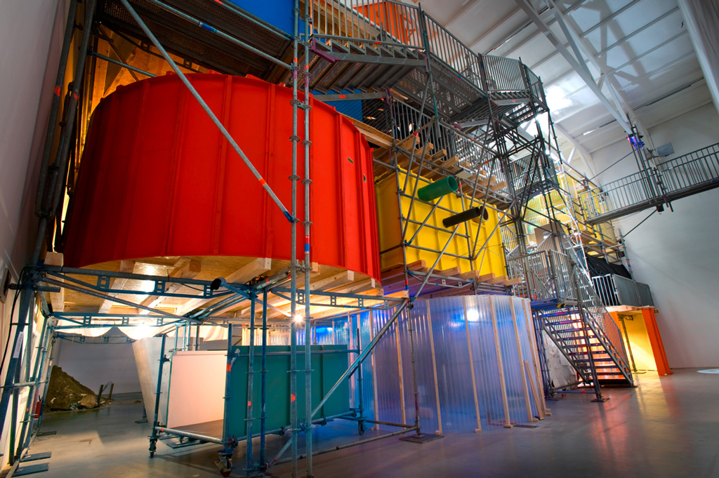 FischGrätenMelkStand, Temporäre Kunsthalle Berlin